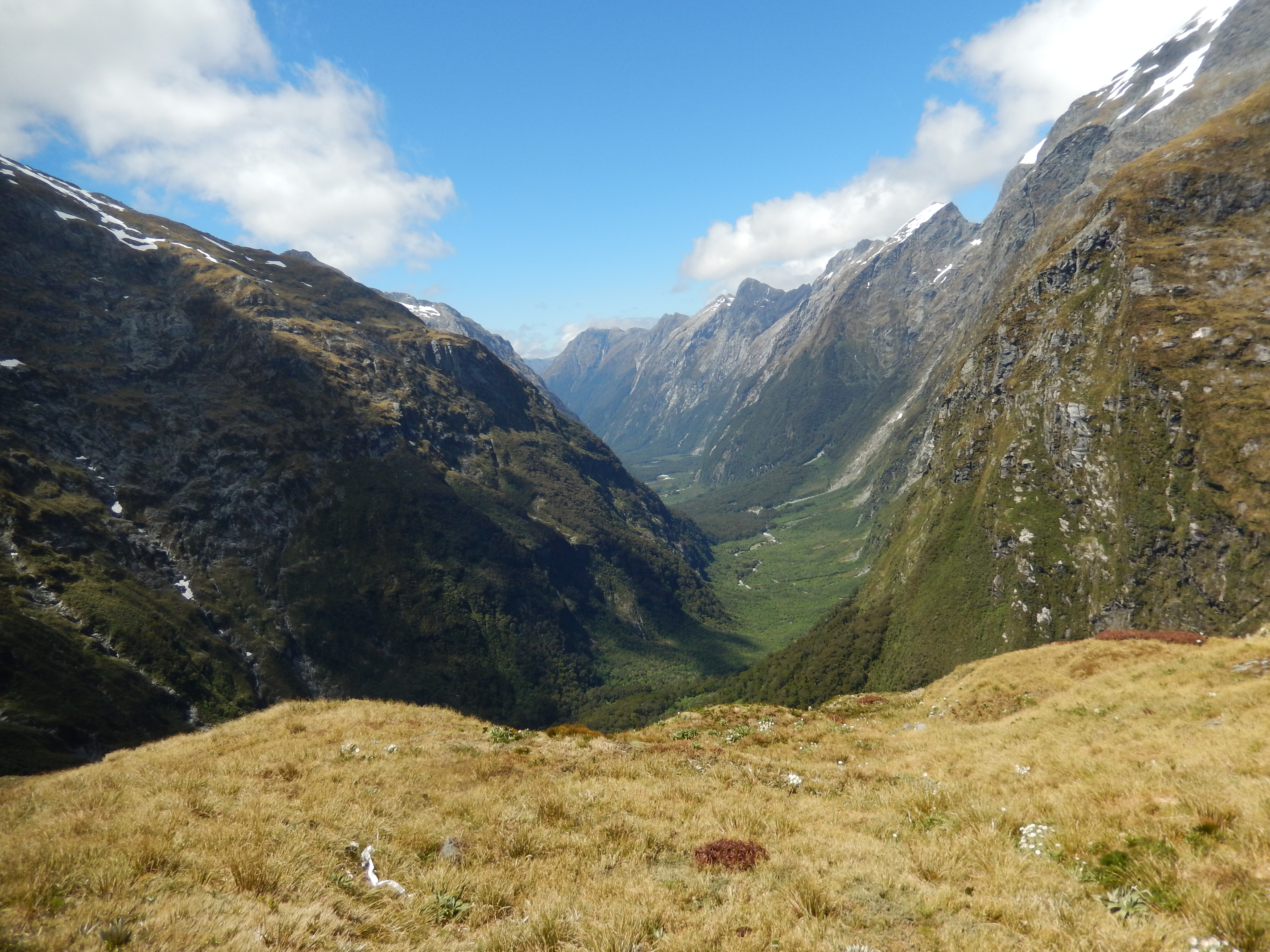 View from the Mackinnon Pass, Milford Track